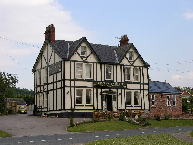 The Ham & Cheese Inn, Scagglethorpe. A popular and attractive Inn a short distance off the A64 between Malton and Scarborough